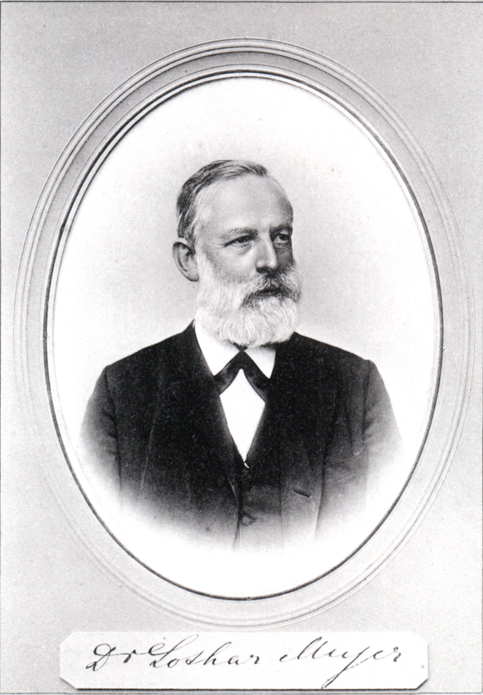 Creator/Photographer: Unidentified photographer Medium: Medium unknown Dimensions: 10.7 cm x 8 cm Date: Prior to 1895 Collection: Scientific Identity: Portraits from the Dibner Library of the History of Science and Technology - As a supplement to the Dibner Library for the History of Science and Technology's collection of written works by scientists, engineers, natural philosophers, and inventors, the library also has a collection of thousands of portraits of these individuals. The portraits come in a variety of formats: drawings, woodcuts, engravings, paintings, and photographs, all collected by donor Bern Dibner. Presented here are a few photos from the collection, from the late 19th and early 20th century. Repository: Smithsonian Institution Libraries Accession number: SIL14-M003-06